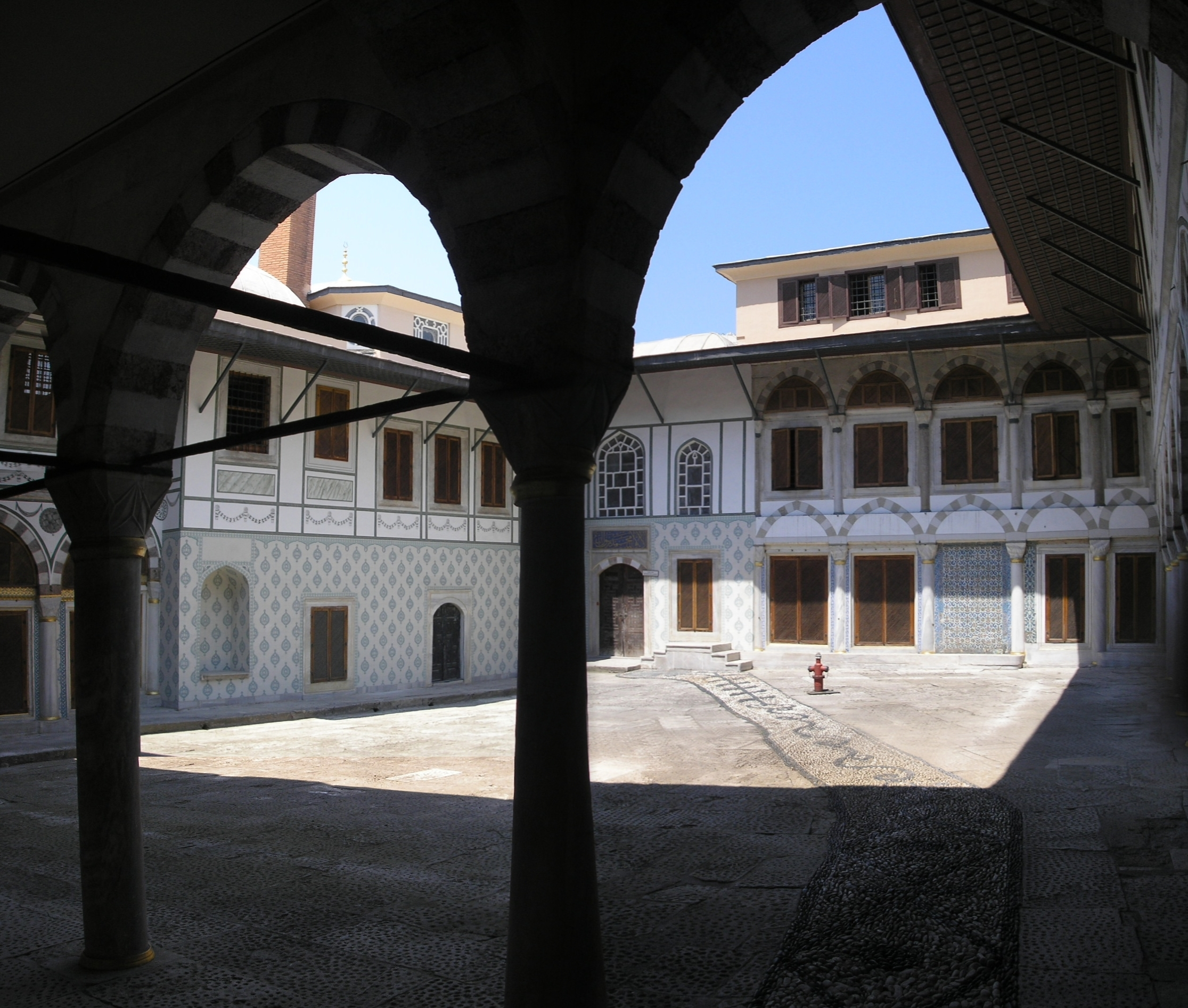 The apartments of the Queen Mother (Valide Sultan) in the Topkapi Palace in Istanbul.